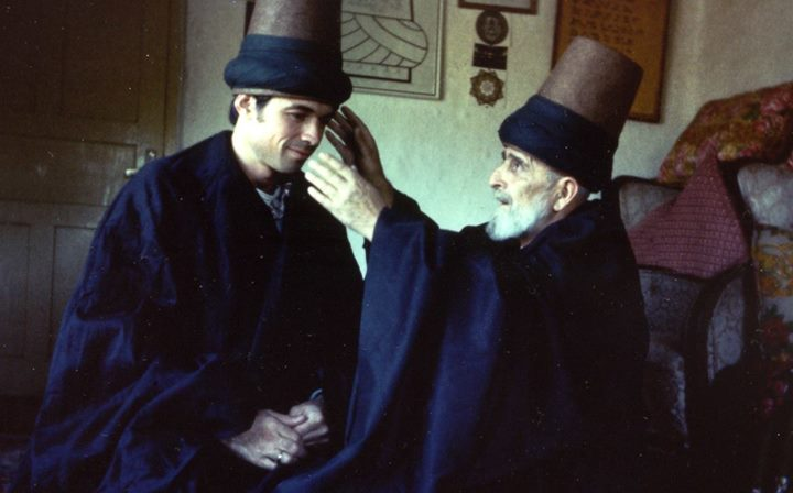 Suleyman Loras appointing his American student David Bellak as a Mevlevi teacber in the 1970s.